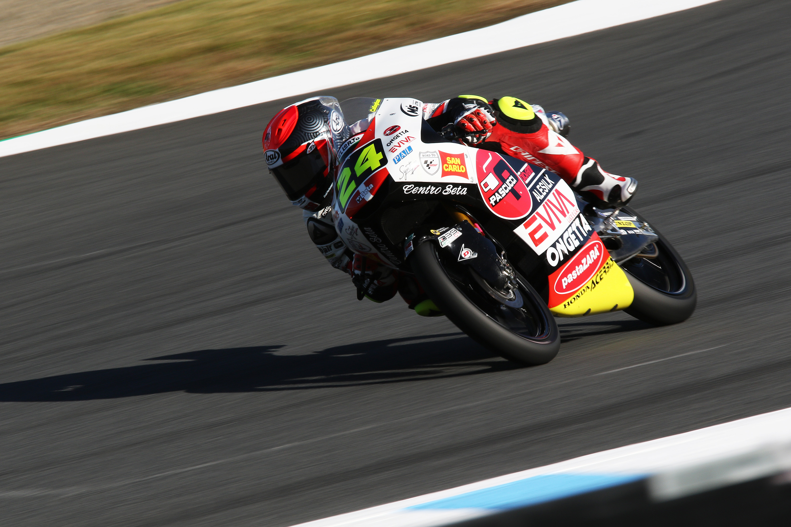 2018.10.21 MotoGP Rd.16 Motul Grand Prix of Japan Twin Ring MOTEGI Moto3 Class Warm Up SIC58 Squadra Corse 24 鈴木竜生 Honda